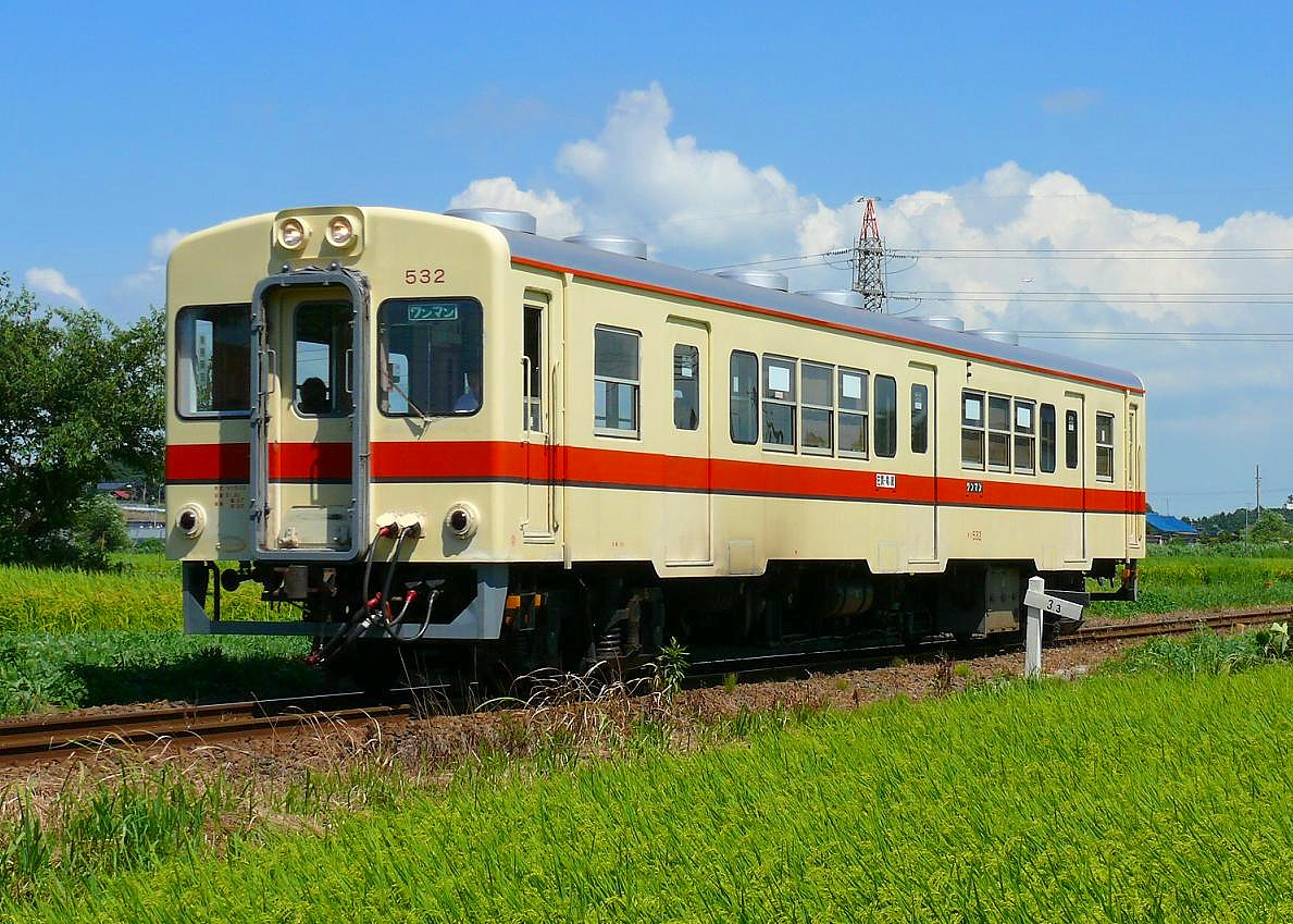 Kanto Railway Type Kiha532 Diesel railcar(Japan). 関東鉄道竜ヶ崎線のキハ532形気動車 入地～竜ヶ崎の駅間にて公道より撮影